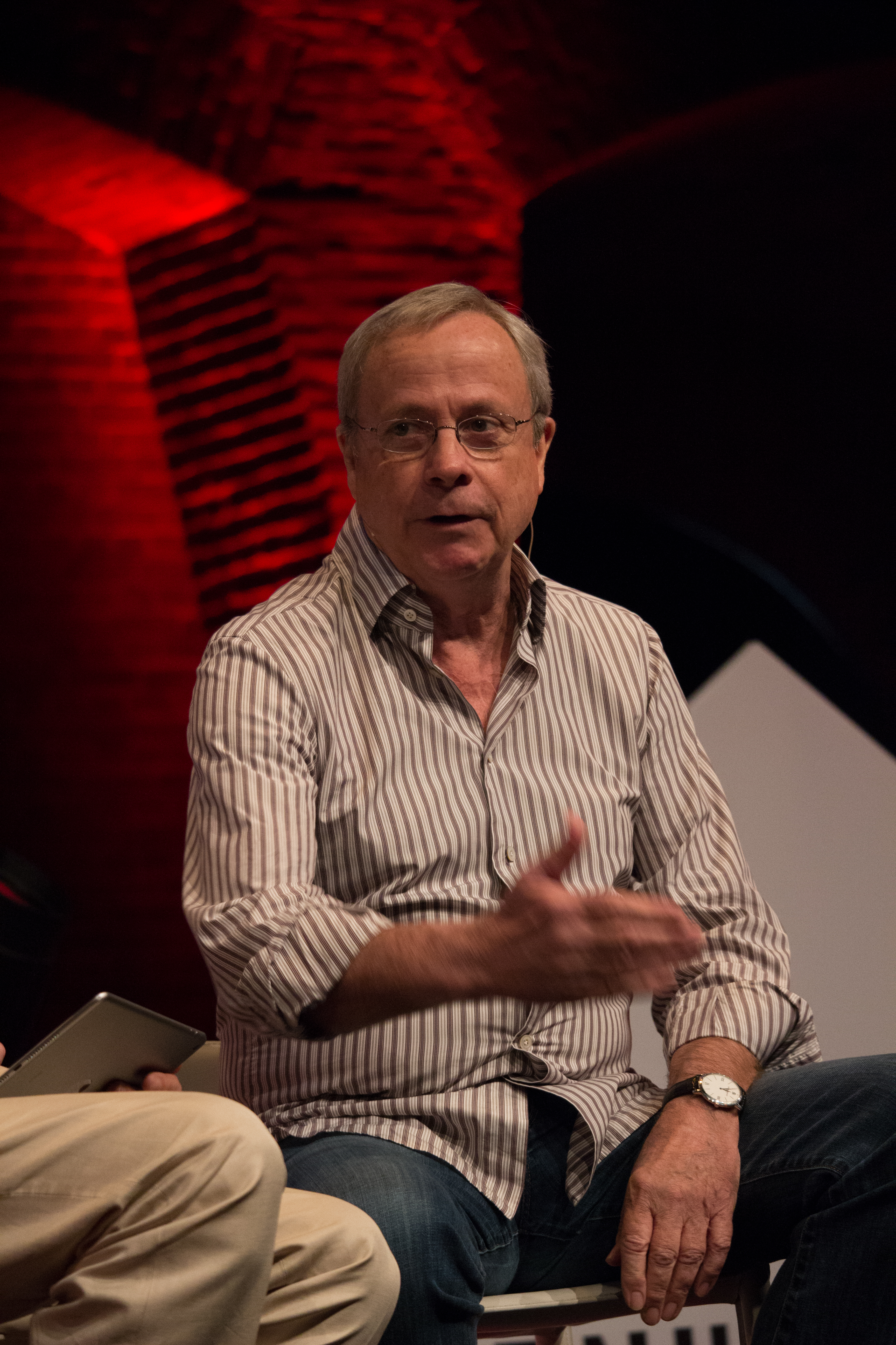 David Allen being interviewed at the TNW conference